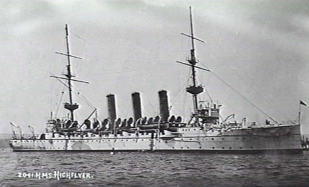 AWM caption : "STARBOARD SIDE VIEW OF THE SECOND CLASS PROTECTED CRUISER HMS HIGHFLYER. NOTE THE 6 INCH GUNS ON THE FORECASTLE AND QUARTERDECK AND ALONG HER BROADSIDE. THE 12 POUNDER GUNS OF HER SECONDARY ARMAMENT ARE MOUNTED BETWEEN THE BROADSIDE MAIN GUNS AND IN THE EMBRASURES FORE AND AFT. 3 POUNDER ANTI TORPEDO BOAT GUNS CAN BE SEEN IN HER FIGHTING TOPS. THE SHIP IS PAINTED WHITE WITH BUFF FUNNELS FOR TROPICAL SERVICE."